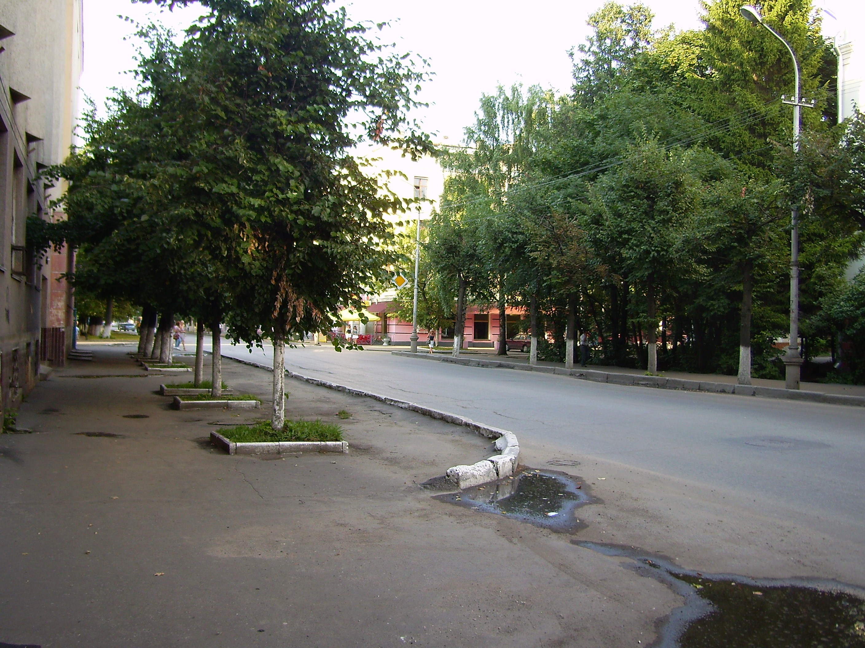 Sovetskaya street